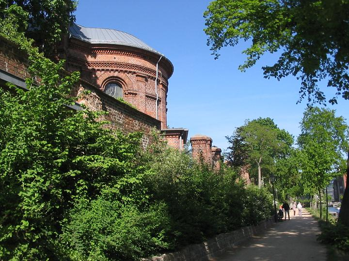 City wall in Brandenburg an der Havel, state Brandenburg, Germany.